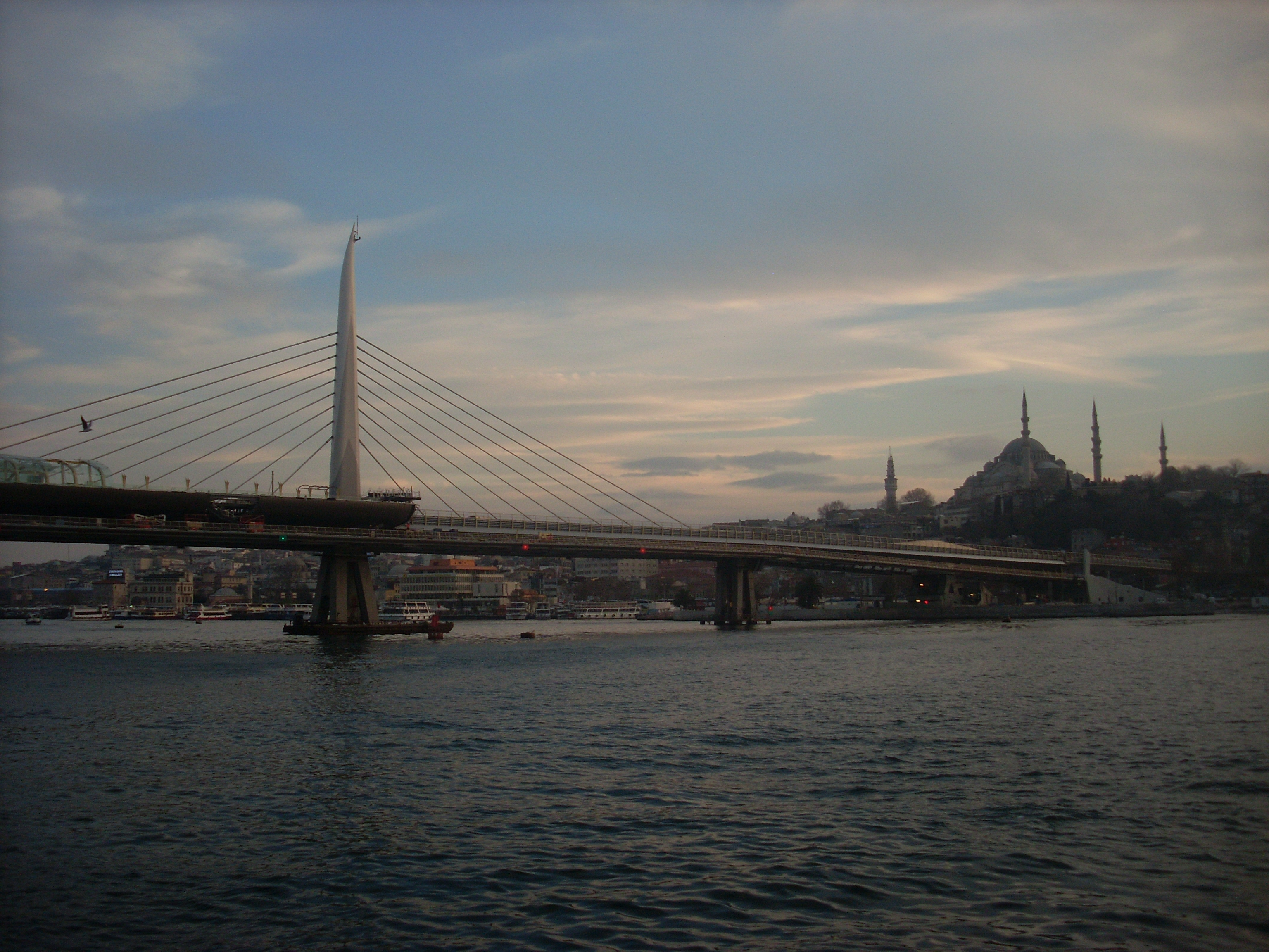 Golden Horn Metro Bridge r1 Feb 2014